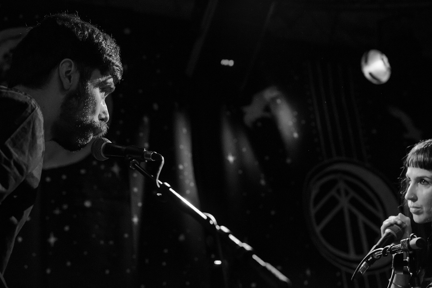 Father Murphy-Linen Building-Treefort-Credit-Rase Littlefield